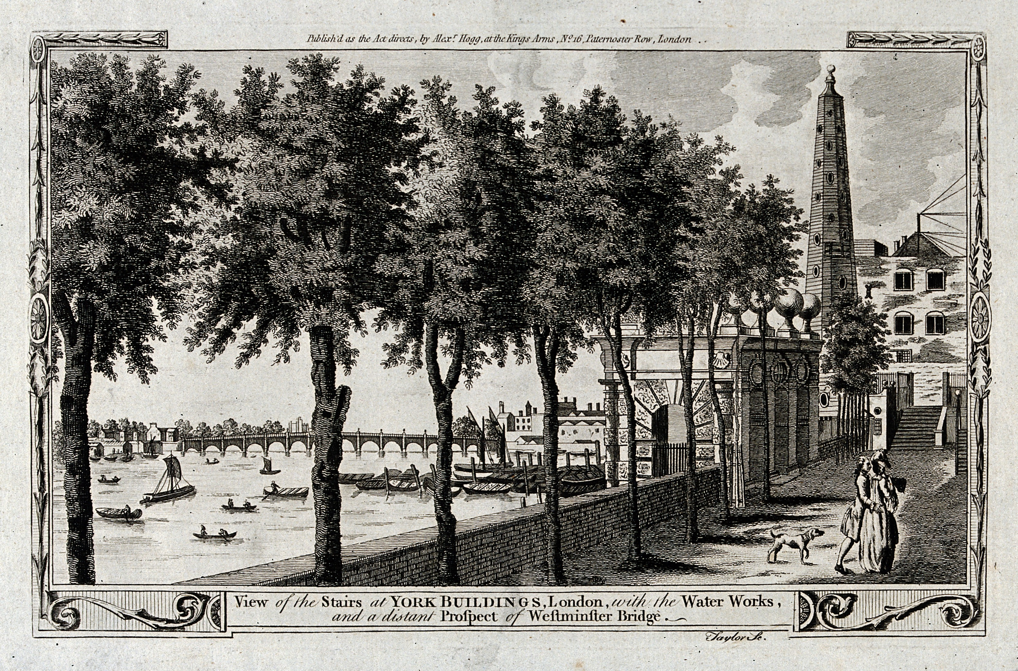 The stairs at York Buildings, the Strand; in the background are the tower of the waterworks and Westminster Bridge. Engraving by I. Taylor, c.1780. Iconographic Collections Keywords: Isaac Taylor